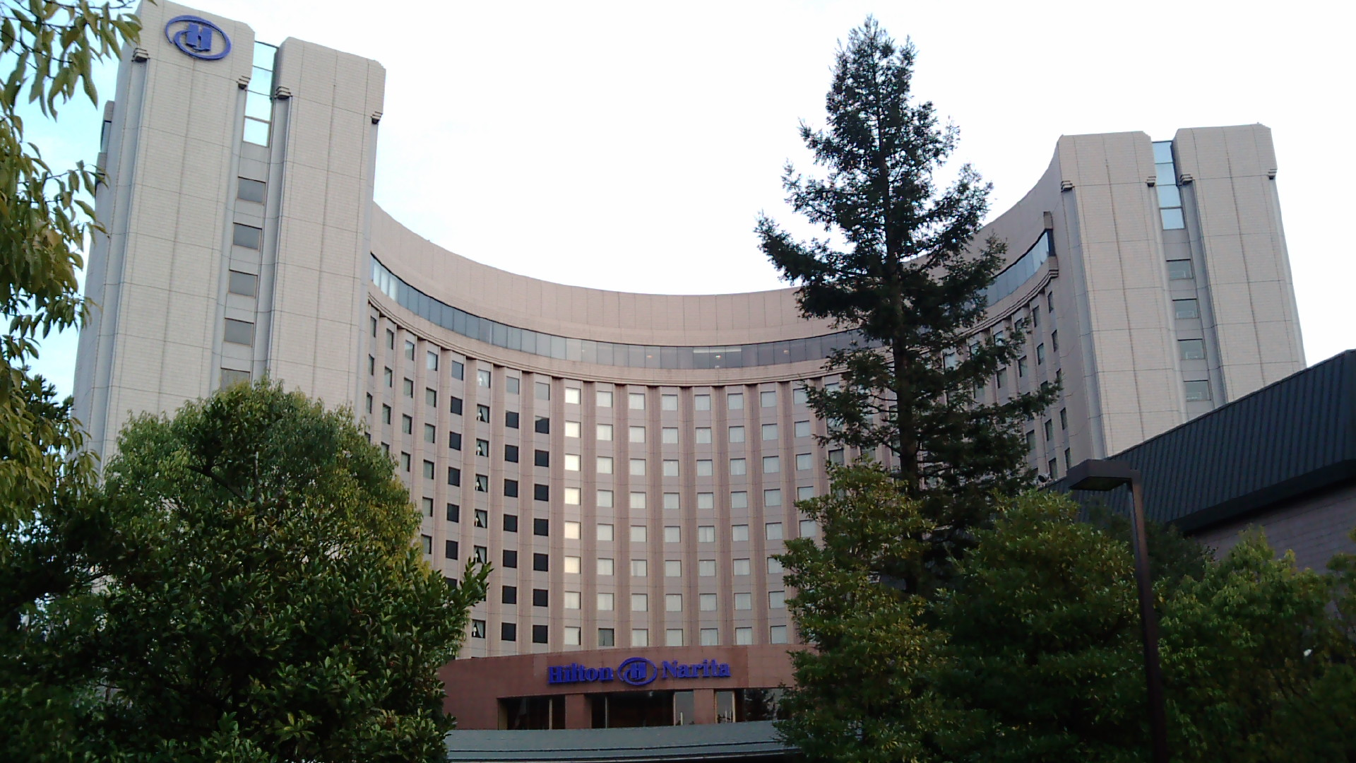 Hilton Narita ,at Narita-city Chiba in Japan.